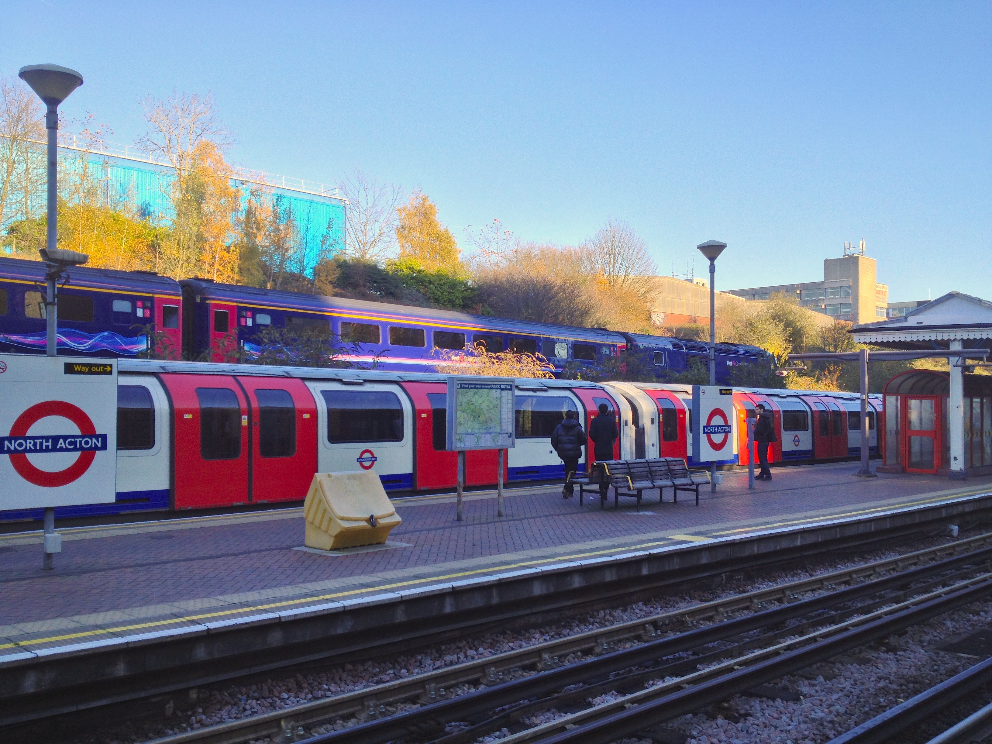 The railway station at North Acton (Central Line, London Underground). In the background is a First Great Western HST set passing by on the New North Main Line, likely to have been diverted due to engineering works at Reading.